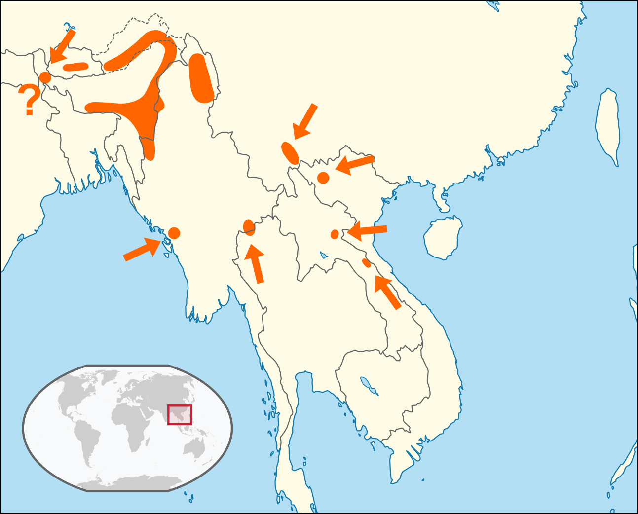 Beautiful Nuthatch distribution according to Simon Harrap (ill. David Quinn): Tits, Nuthatches an Treecreepers